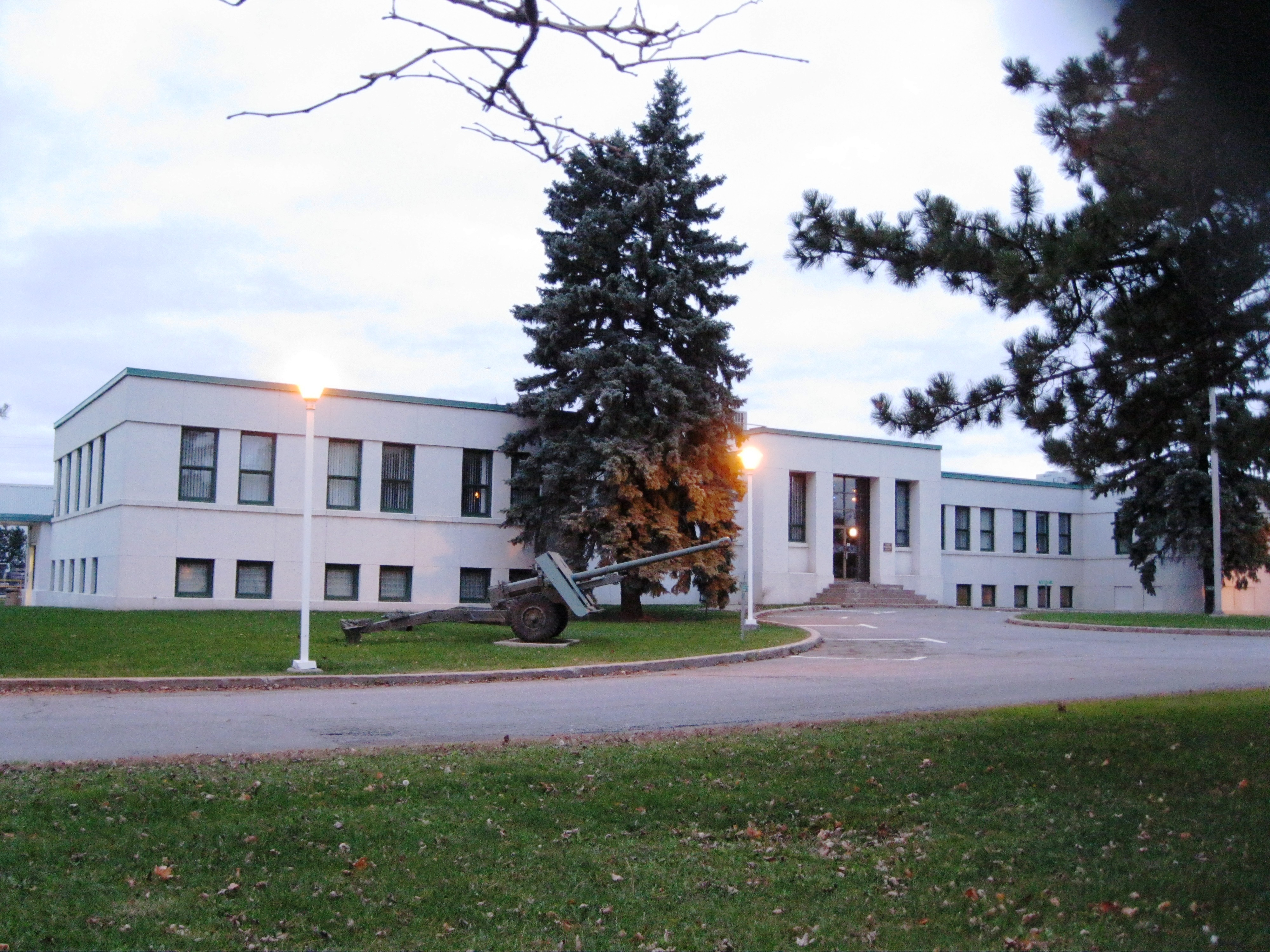 Building 42, also known as the Administration Building, is located at the Longue-Pointe Garrison (CFB Montreal), along the eastern perimeter of the base, near the main entrance, facing onto Notre-Dame Street in Montreal.